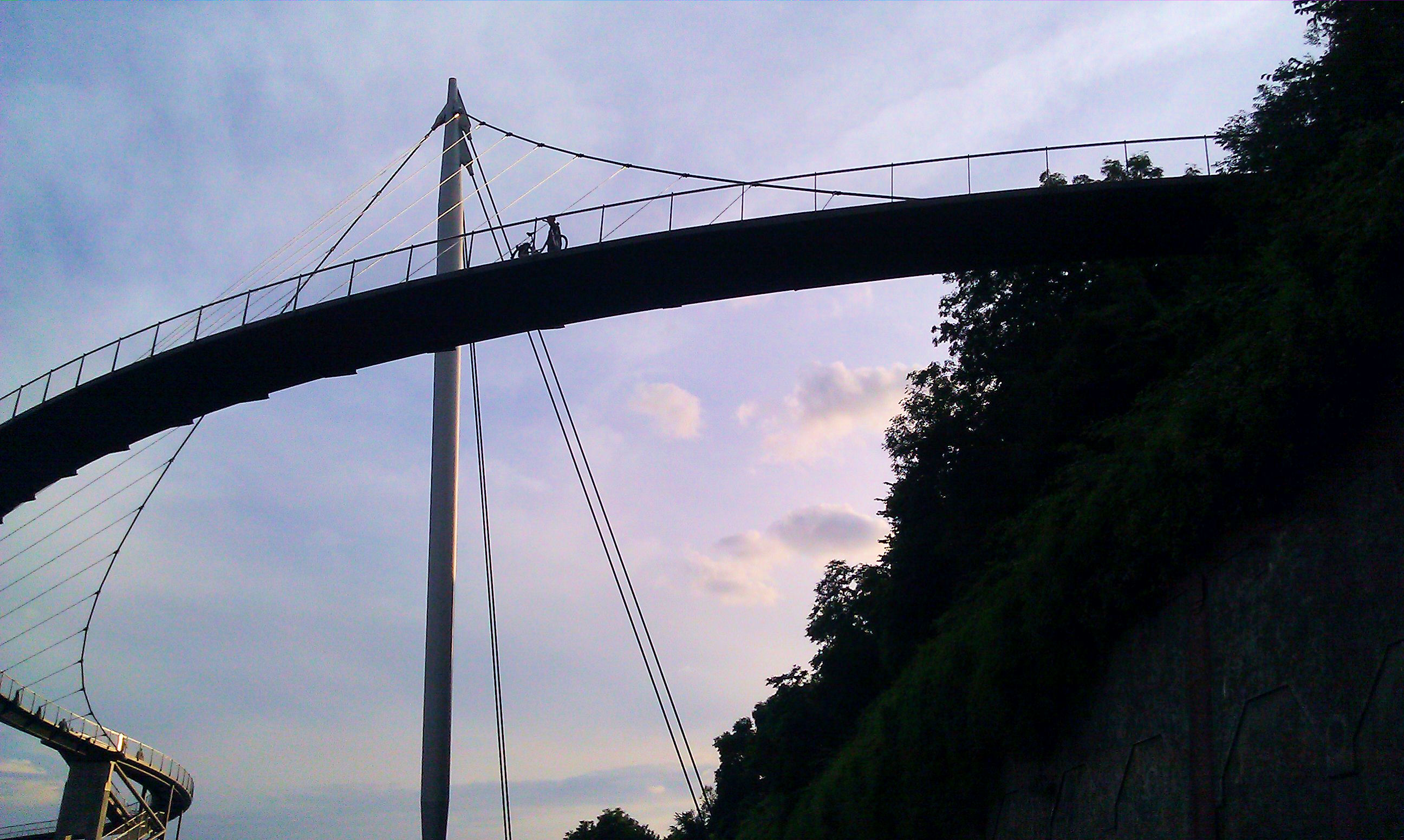 Pedestrian bridge in the harbour in Sassnitz, district Vorpommern-Rügen, Mecklenburg-Vorpommern, Germany